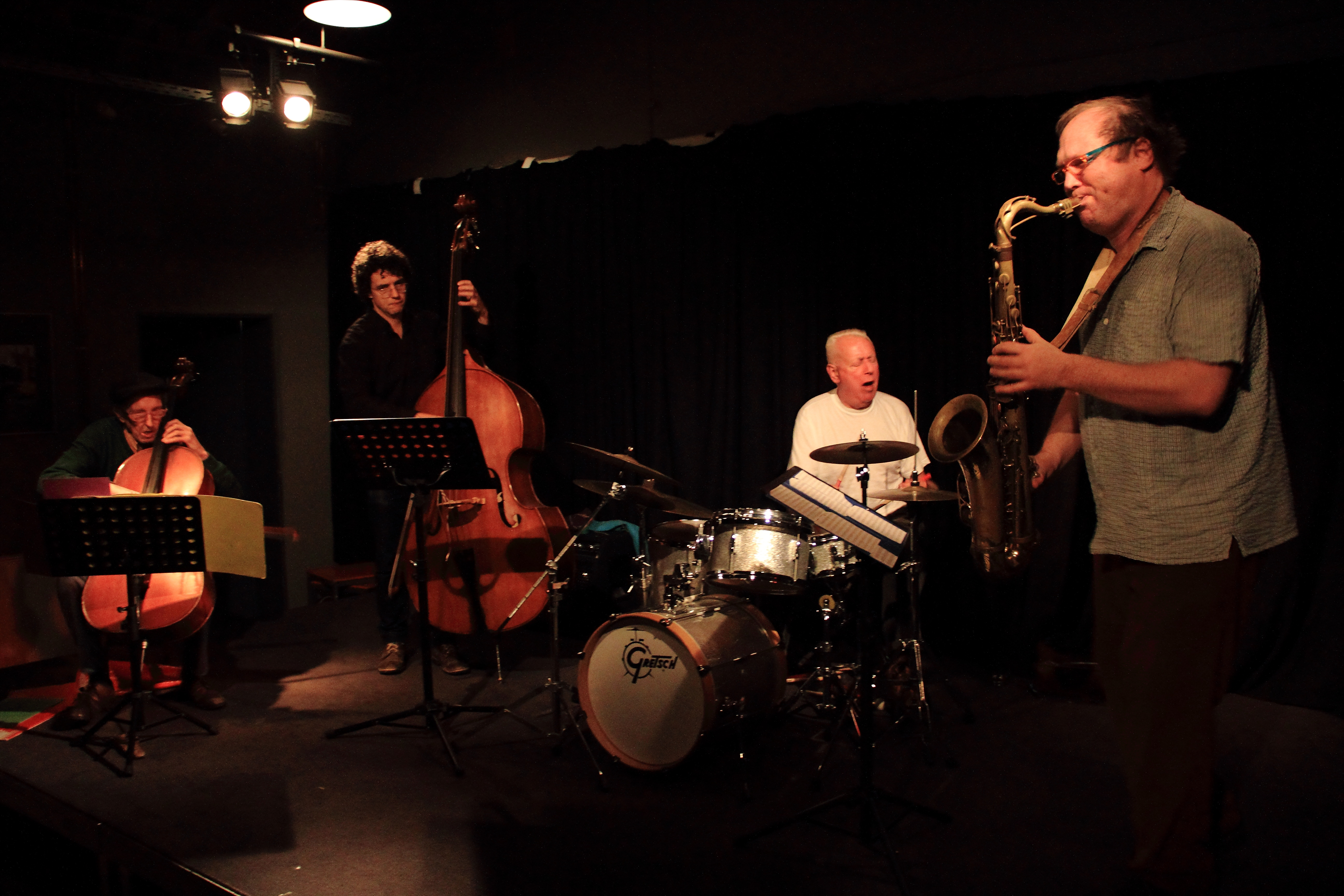 The Tobias Delius Quartett with Tristan Honsinger, Joe Williamson and Han Bennink at Club W71, Weikersheim.